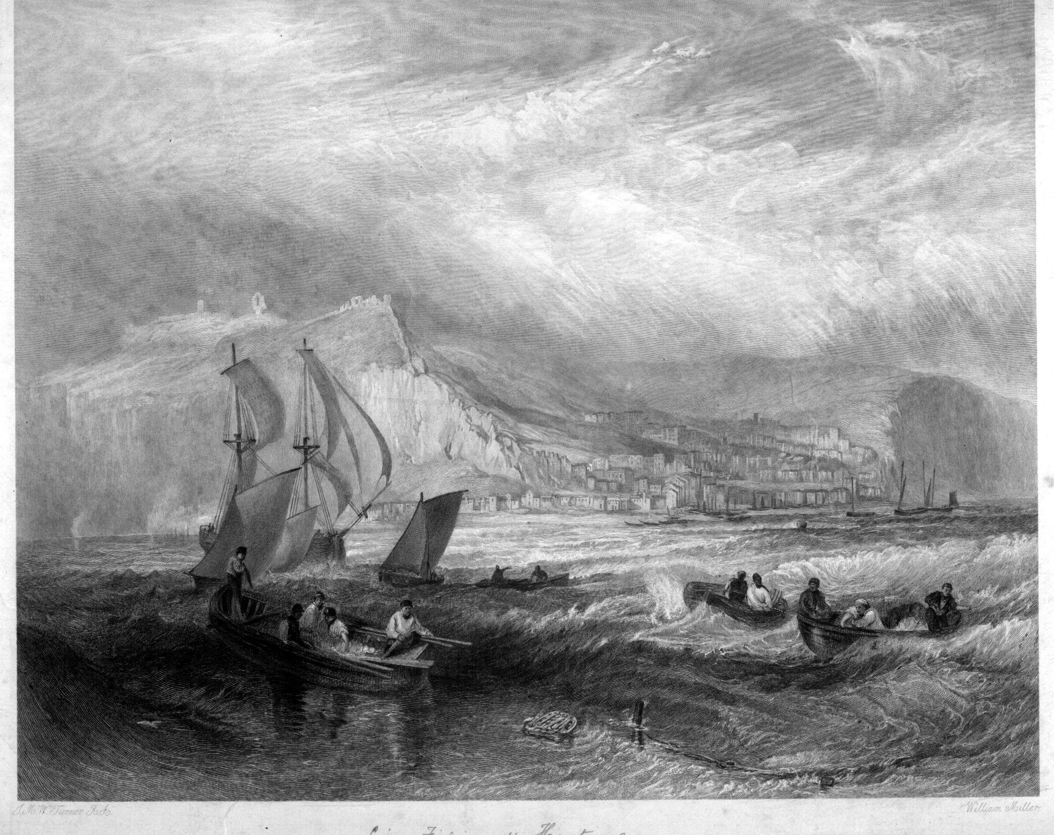 (Rawlinson 728) published in The Turner Gallery. A series of One Hundred and Twenty Engravings from the works of J.M.W. Turner. The Descriptive Text by W. Cosmo Monkhouse. Virtue and Co, London